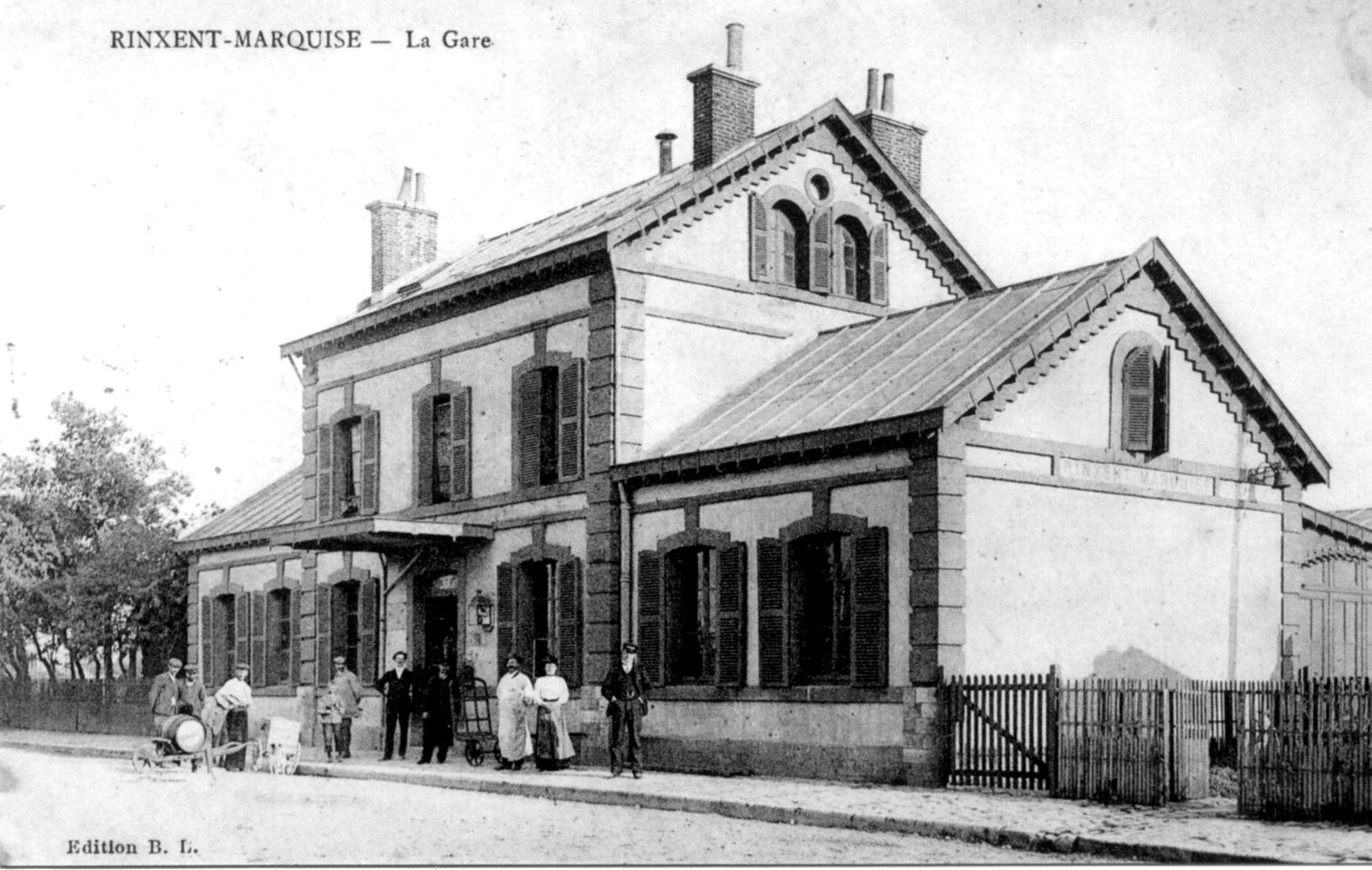 Postcard of the railway station of Rinxent located on the line Calais BOulogne